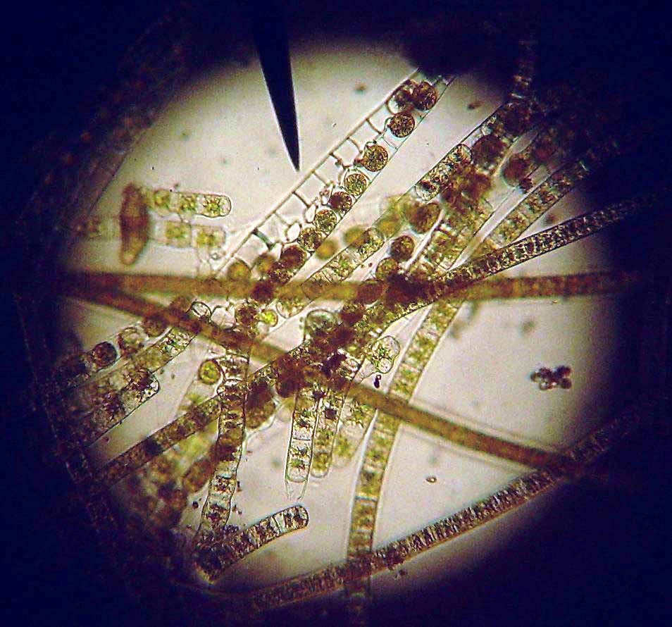 I took this image using a digital camera and a compound light microscope at a total magnification of 100X. This is fresh water green algae collected from the scum on the top of a pond in February 2007 in Waxahachie, Texas. The weather had been warm and was turning cold again. I think that it induced these algae to conjugate. The pointer is showing conjugating filamentous green algae. The two strands are still separate at the bottom where the cells have not yet conjugated. As the strands get closer together a sex pilus is formed and one cell moves across to fuse with the other cell. The empty cell walls in the other strand can clearly be seen. Rozzychan|User:Rozzychan|Rozzychan 13:05, 17 February 2007 (UTC)